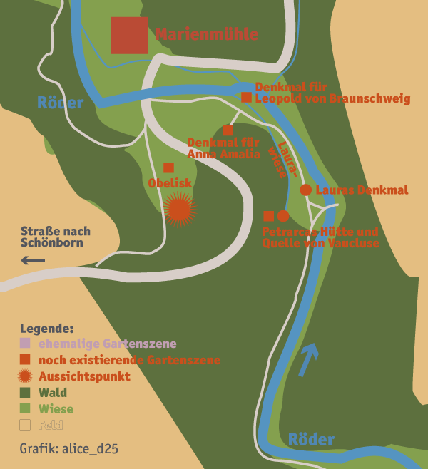 The Seifersdorfer Tal isa German landscape garden from the end of the 18th century near Dreasden, Saxony, built by Christina von Brühl, southwestern part.